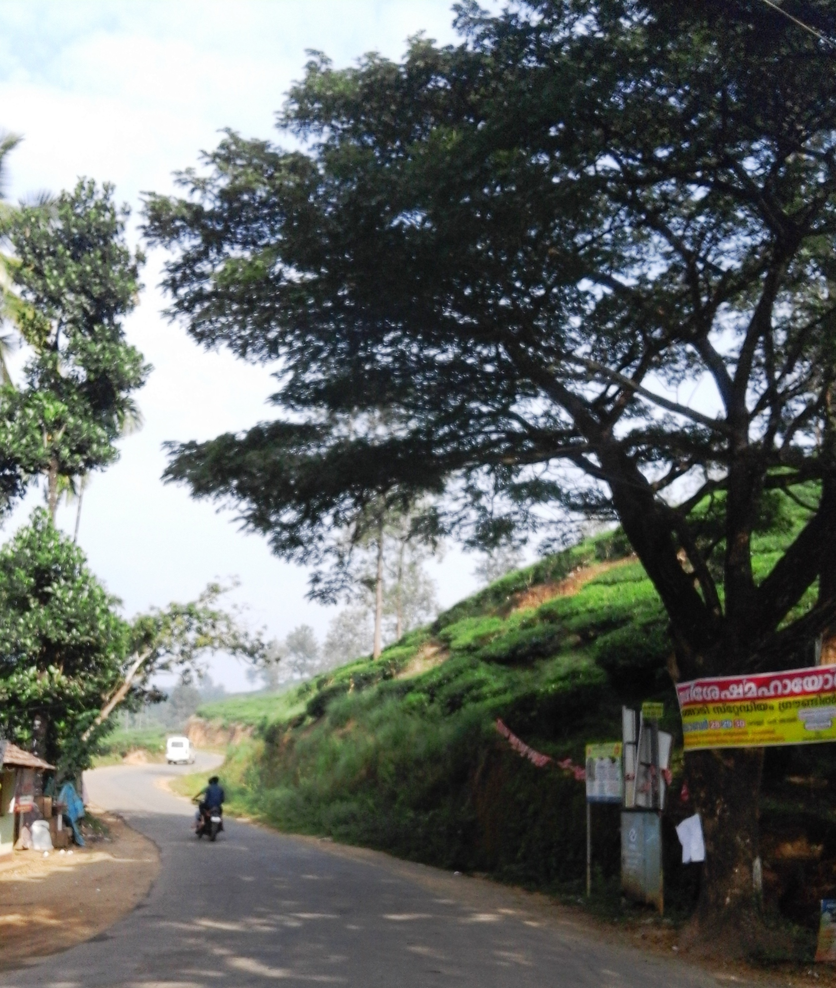 Soochippara Road, Wayanad district, Kerala state, India.